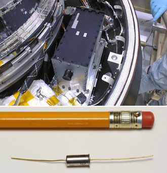 Composite image. Top image is of the interior of the Genesis return capsule show its electronics bus. The bottom picture is of an accelerometer of the same type that was incorrectly installed in Genesis, with a pencil for scale.